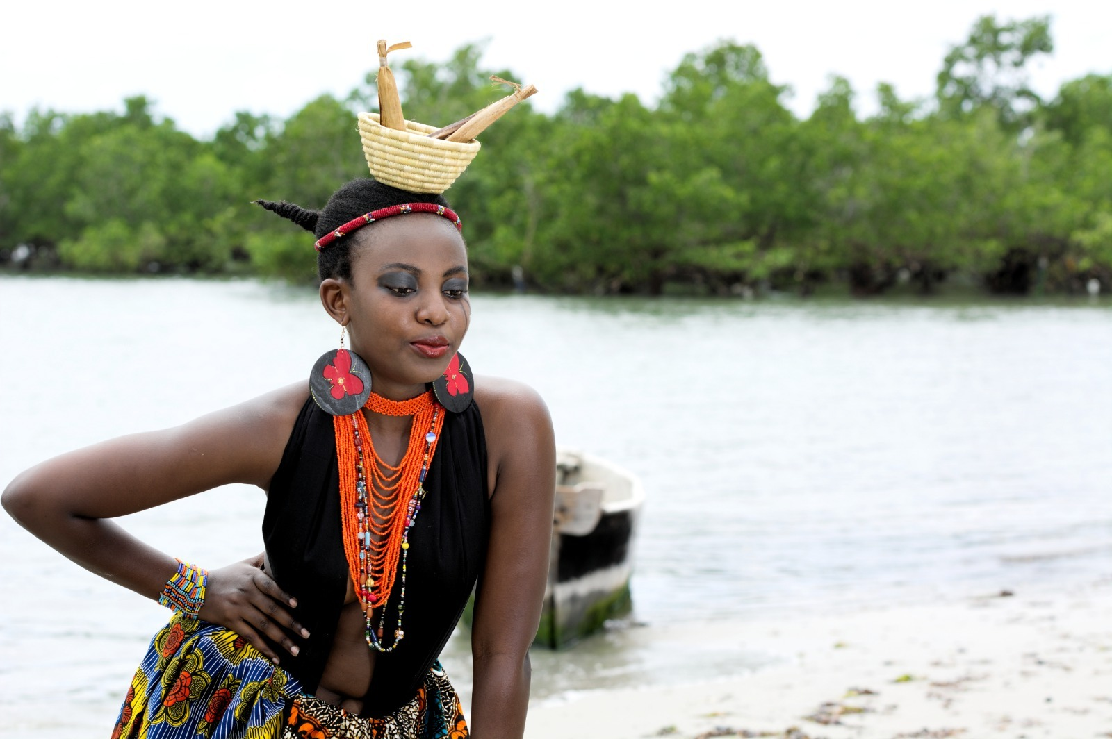 She has necklaces, bangles, earings which are made in Africa and a small calabash with agricultural crops. This is an image of Cultural Fashion or Adornment from Tanzania